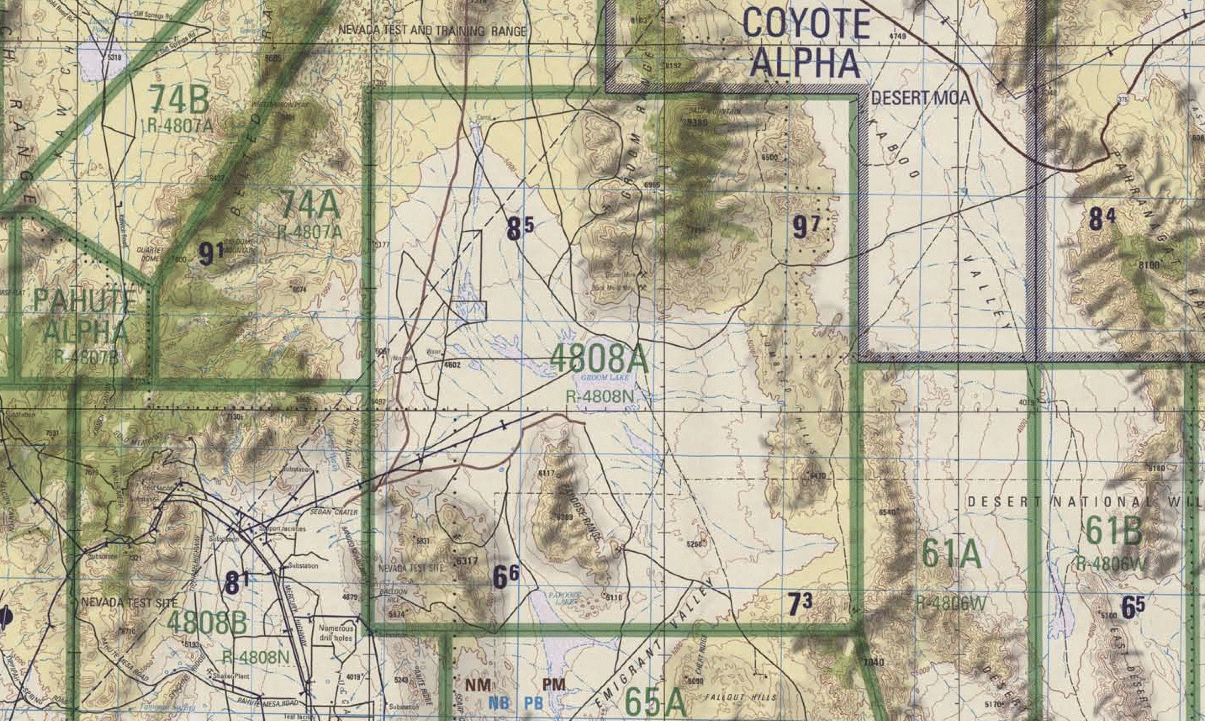 Nevada Test and Training Range Chart, Edition 3 (zoom-in centered on Groom Lake)